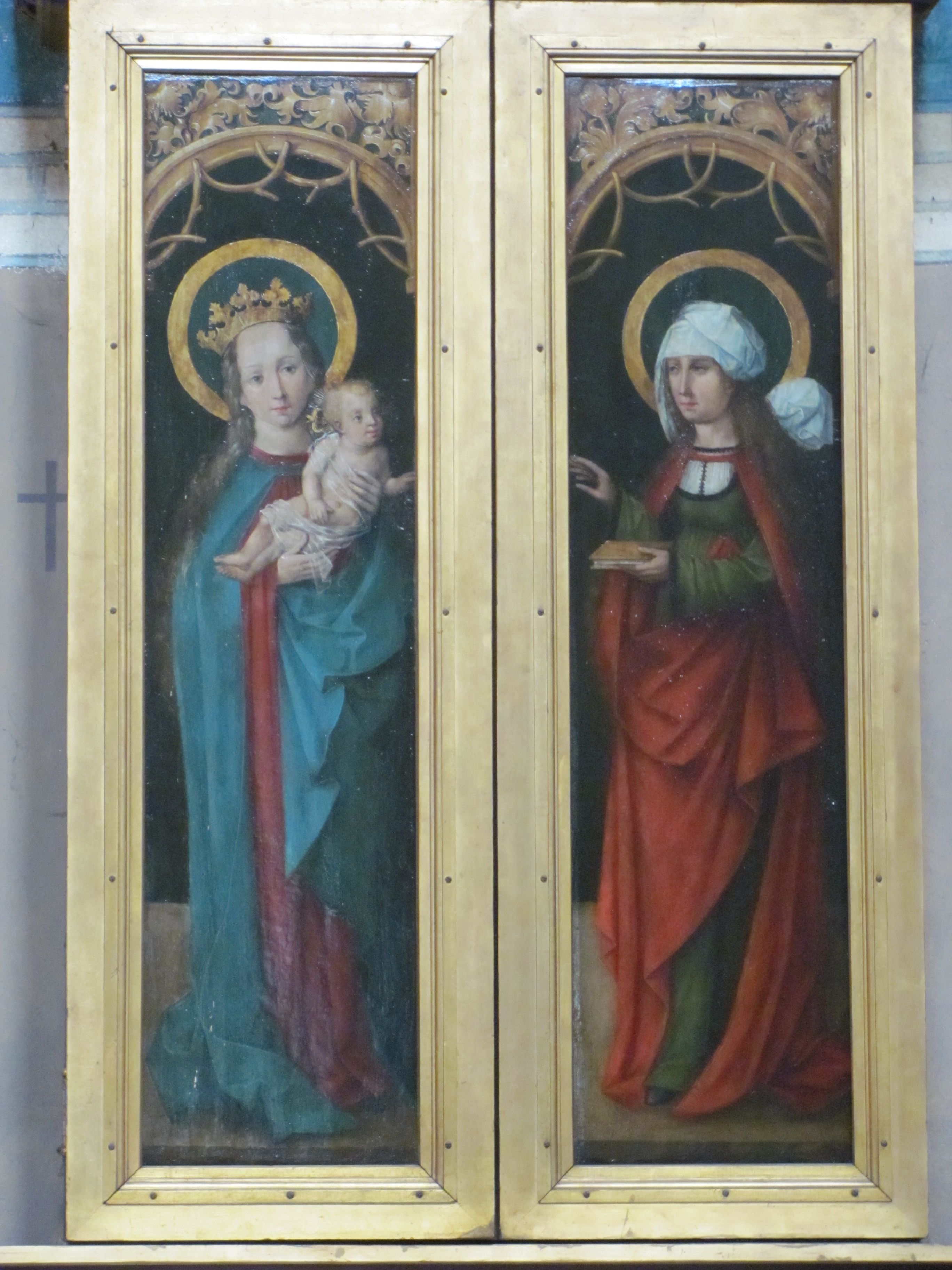 Altar of Woerth, exterior